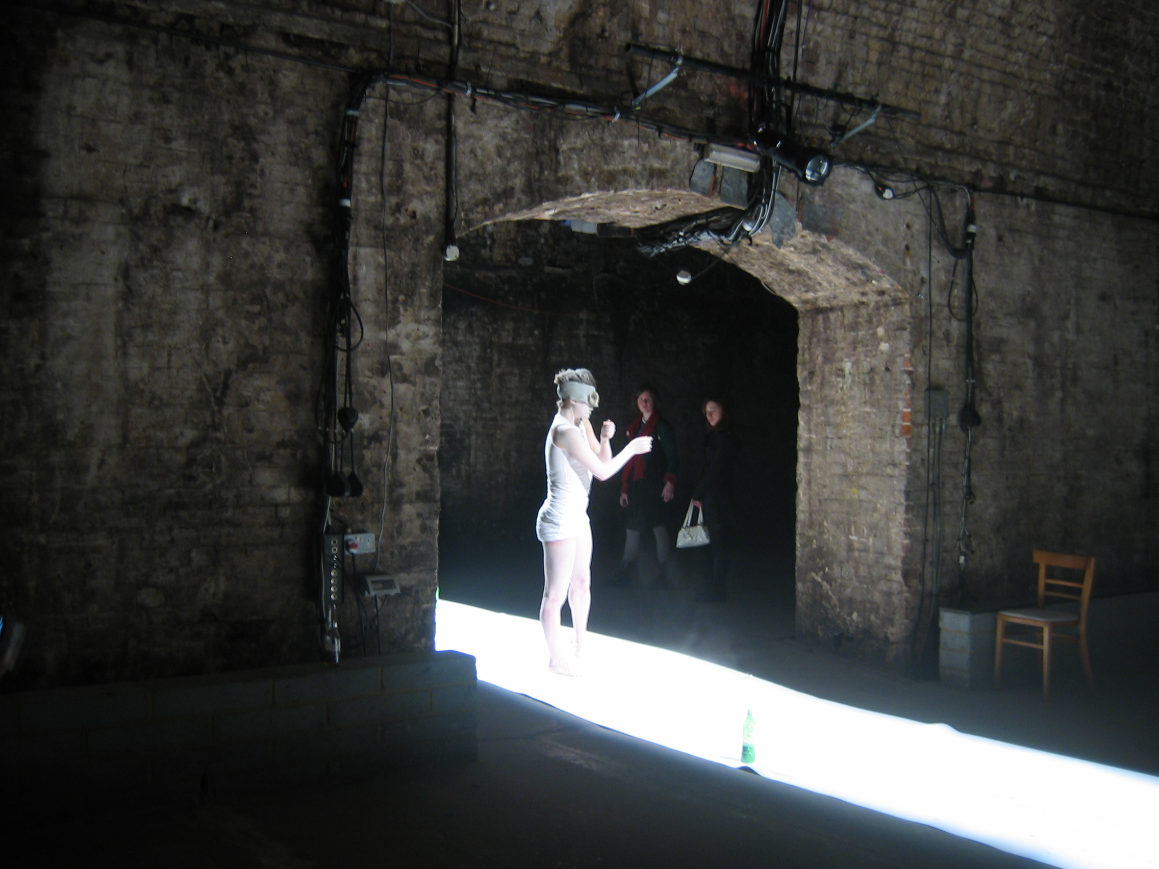 Shunt Vaults, underneath London Bridge station